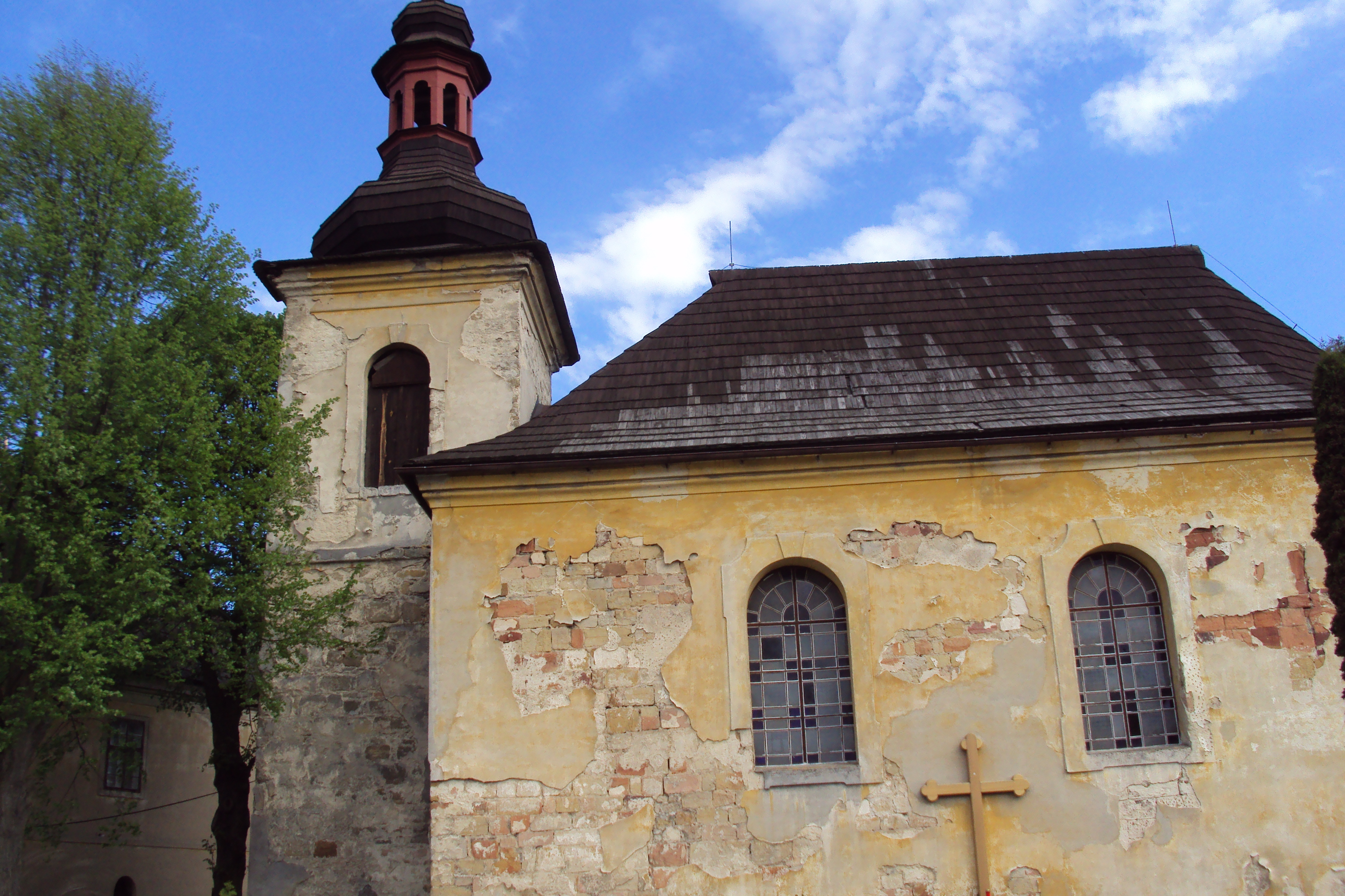 Church of St. Giles in village of Bezděz, Česká Lípa District,Czech Republic